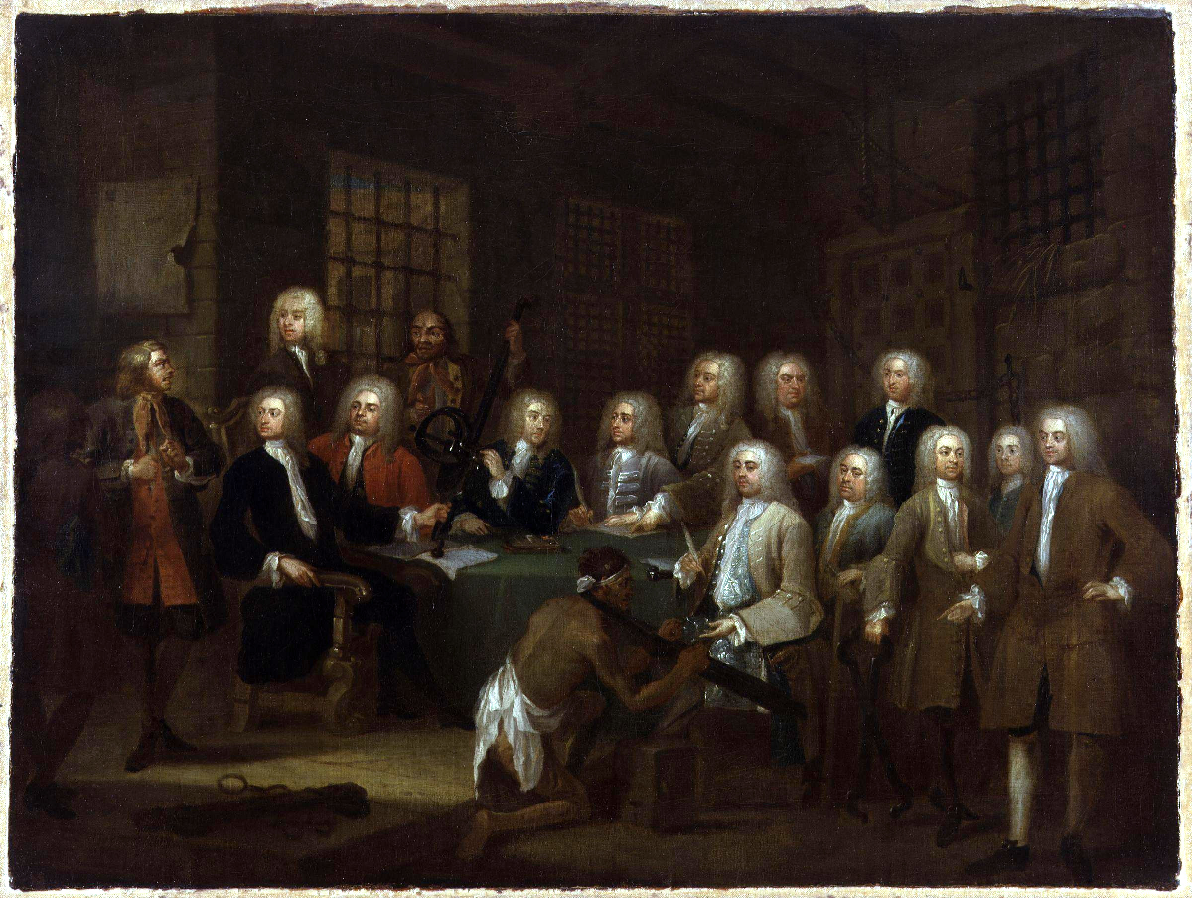 The Gaols Committee of the House of Commons, by William Hogarth (died 1764), given to the National Portrait Gallery, London in 1892